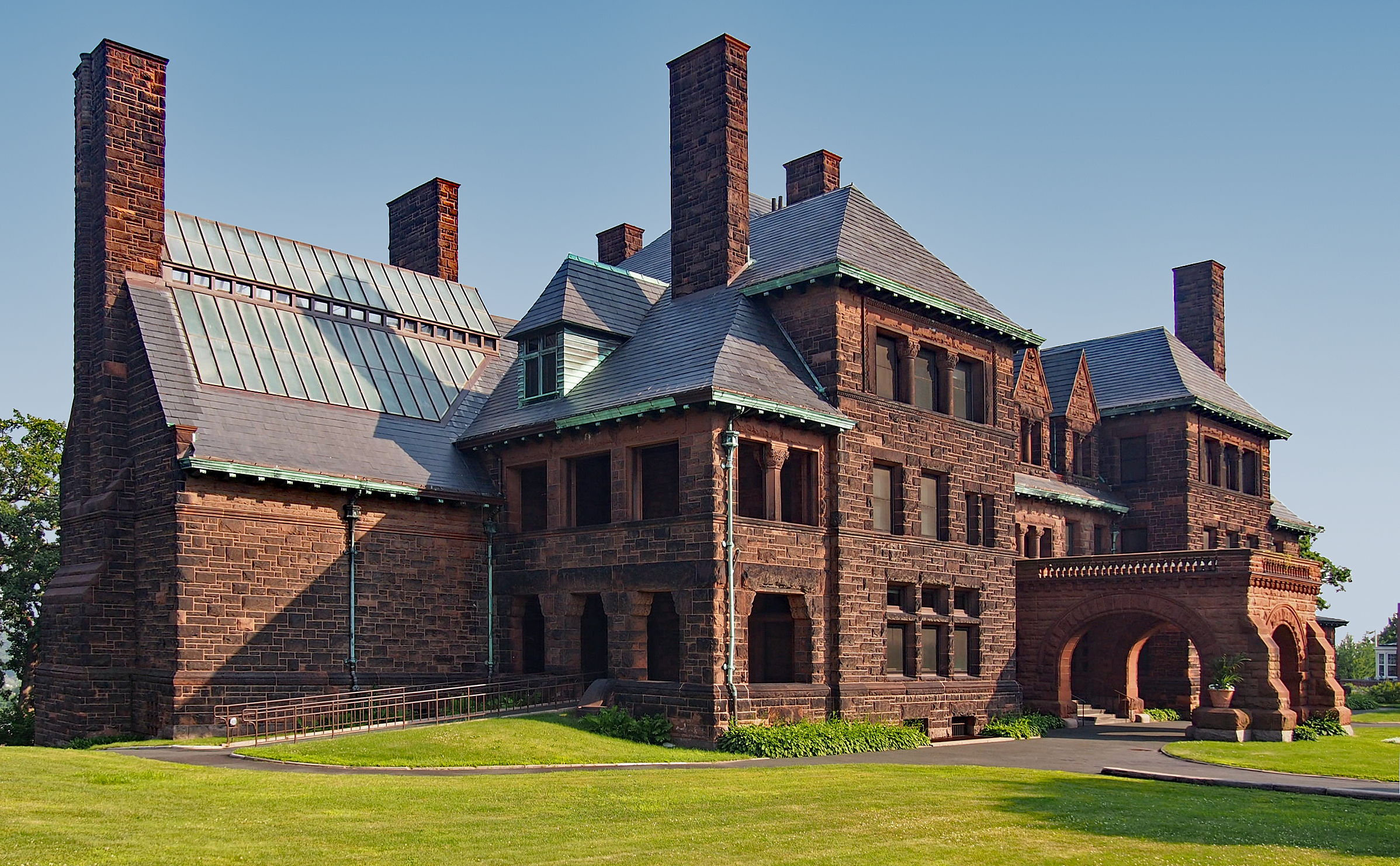 James J. Hill House, St Paul, Minnesota, USA. Viewed from the north in late afternoon atop a stepladder, corrected for tilt distortion.